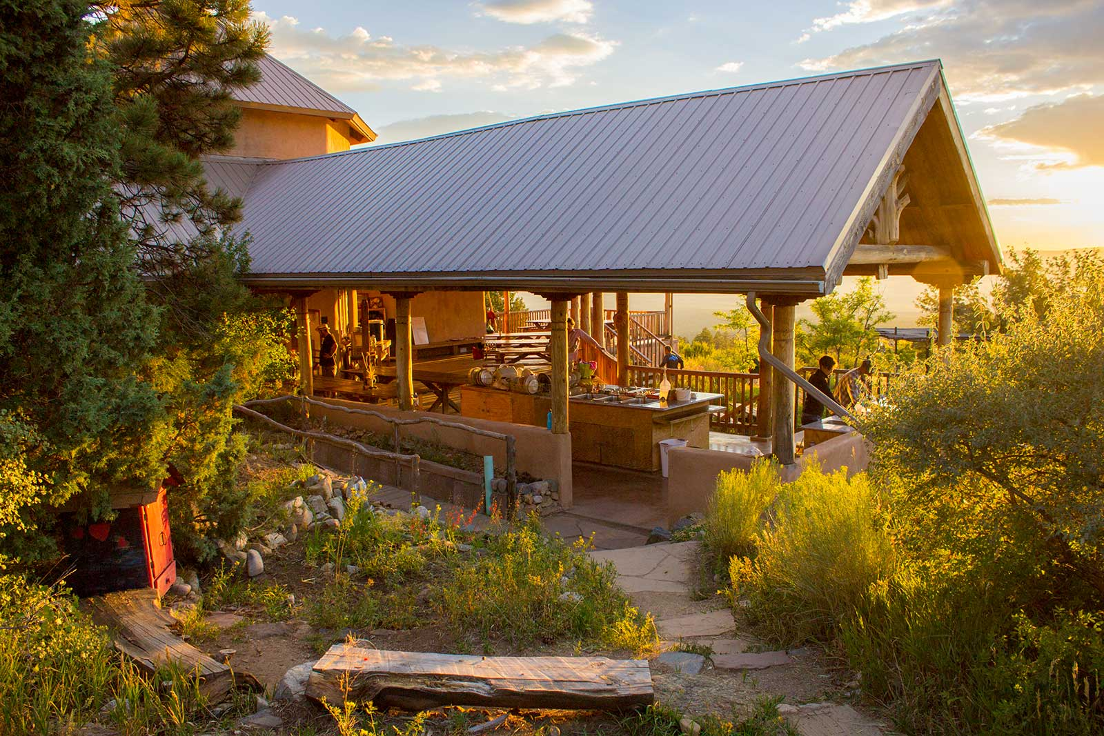 Photo by Bobby Burke